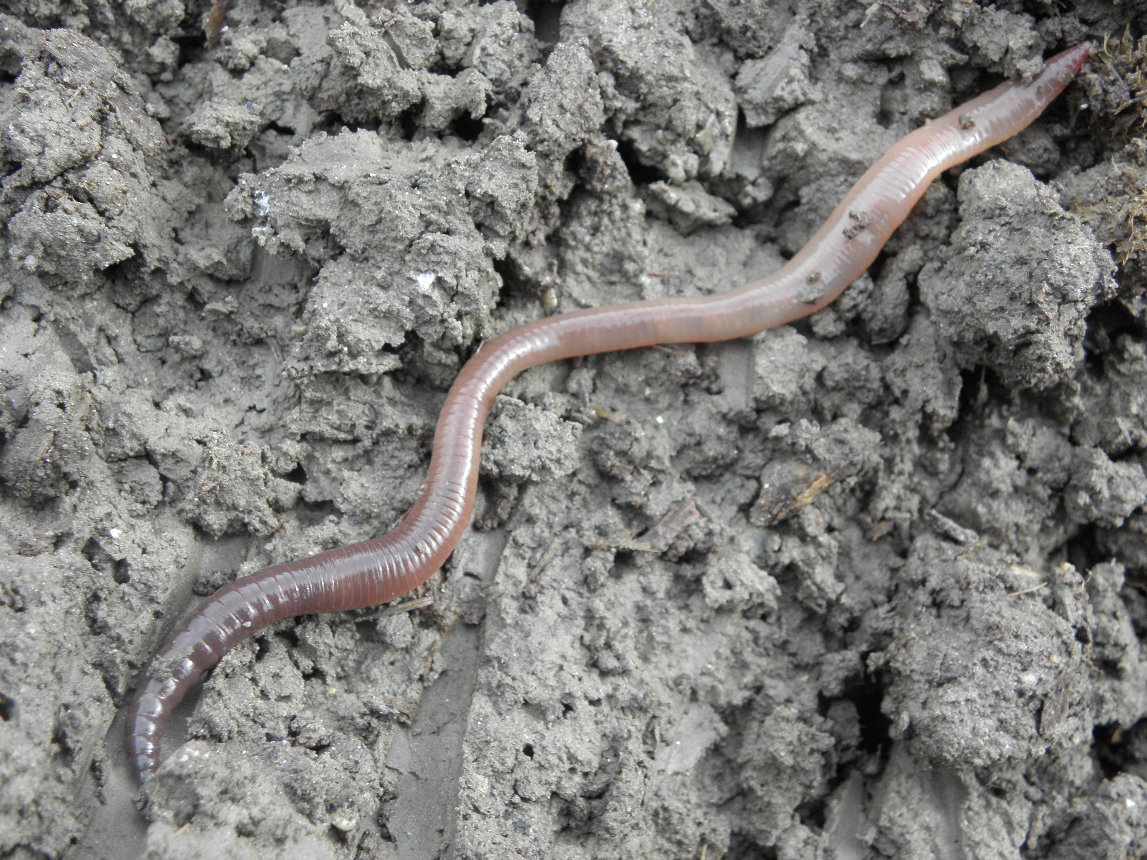 Earthworm